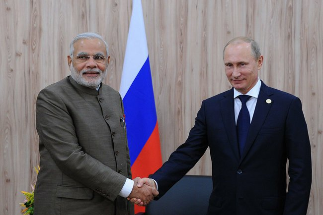 Putin shakes hand with Modi at the 6th 6th BRICS summit